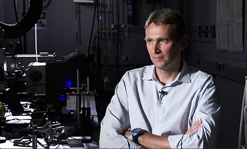 Physicist Madis Raukas